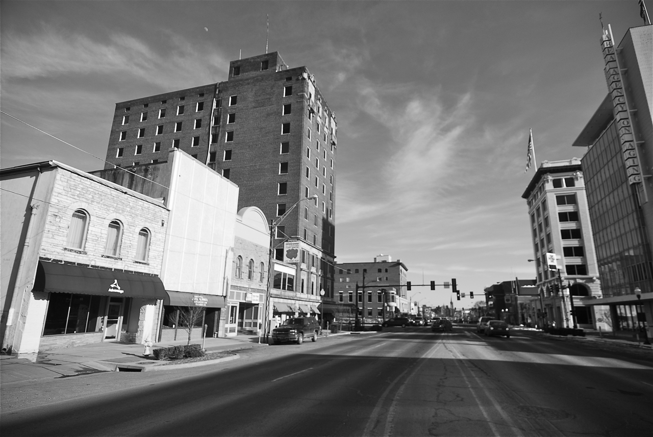 Downtown Fort Smith looking east.